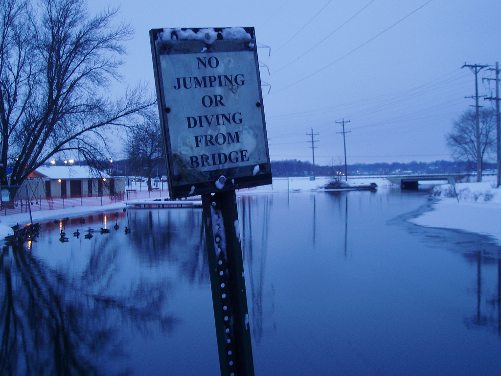 Mukwonago River in Mukwonago, Wisconsin, USA.